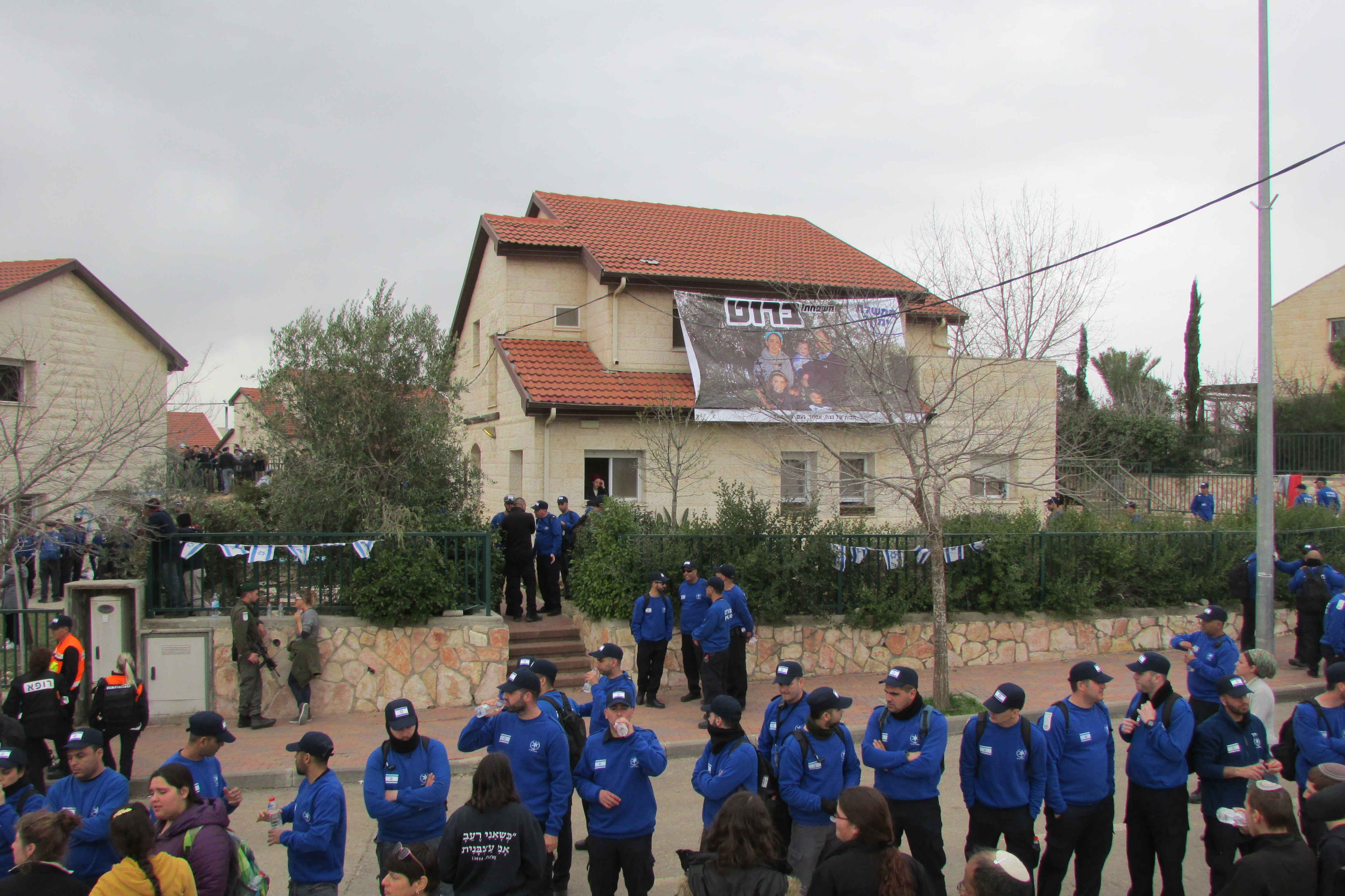 Demolishing of the nine houses.